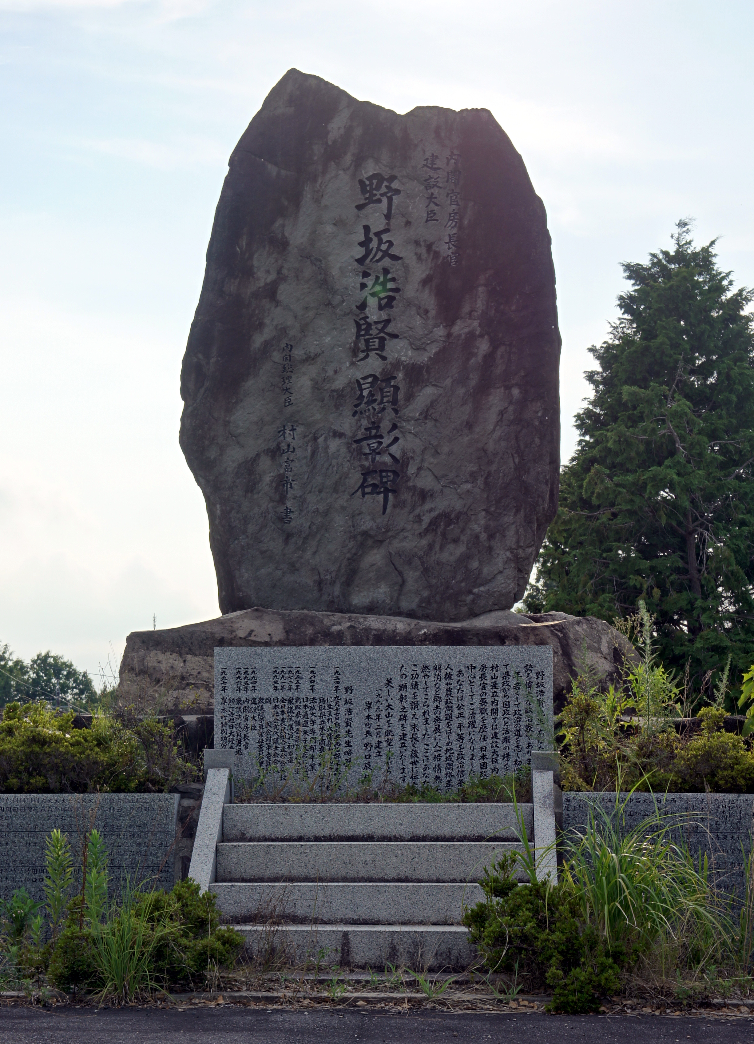 Koken Nosaka commending stone monument (Hōki, Tottori Prefecture, Japan)